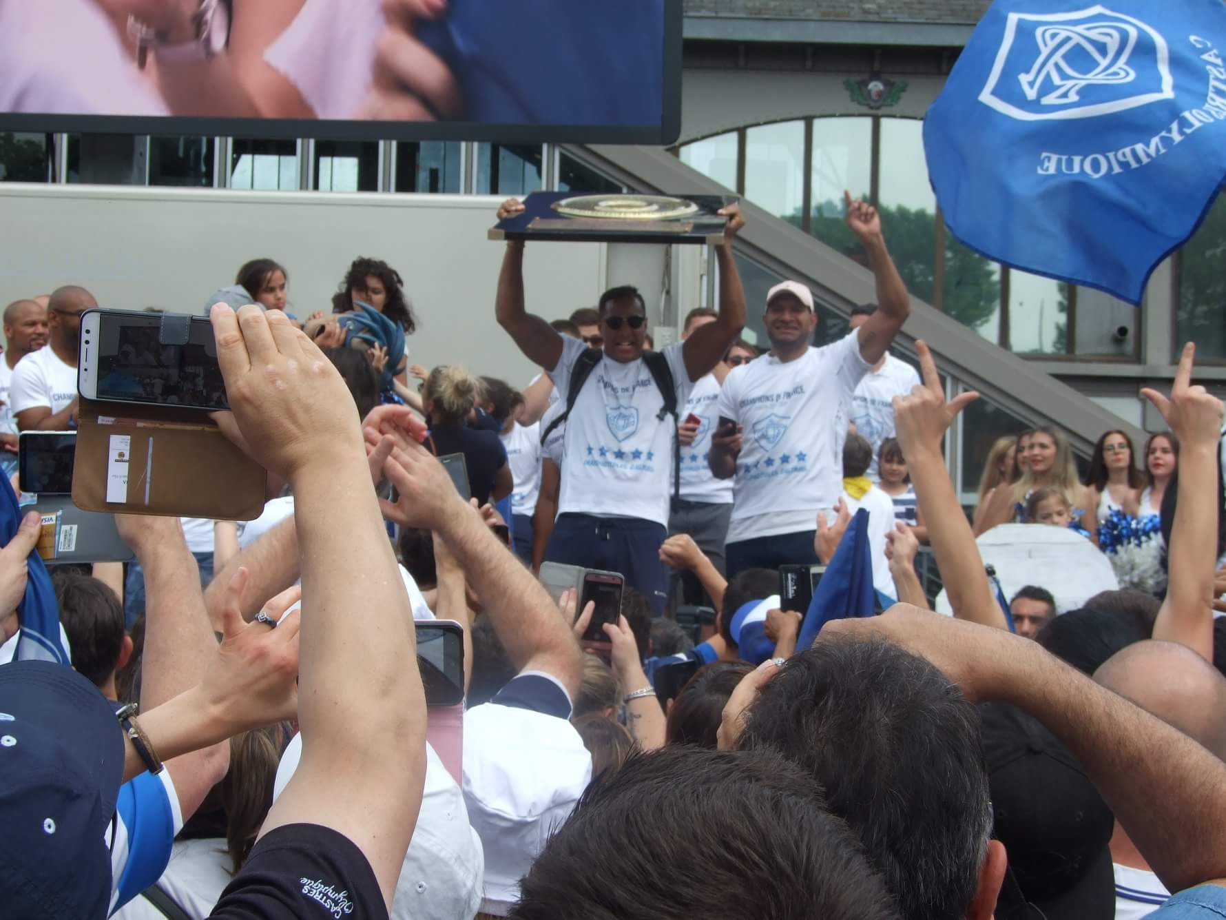 Festivités Place Pierre Fabre à Castres en 2018